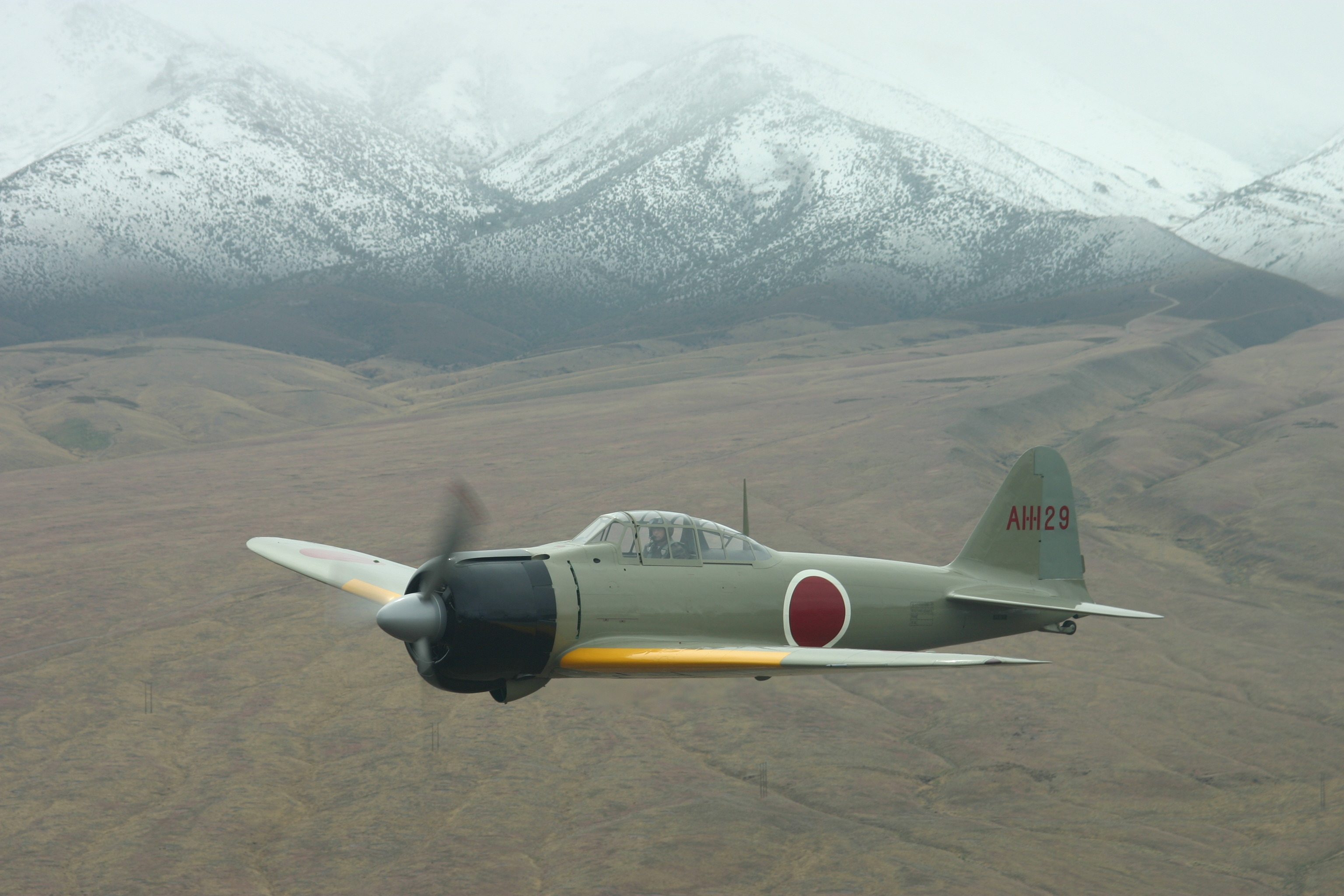 Photograph of Japanese Zero taken from the window of a DC-3 on a flight from the Reno Air Races to Wisconsin. The mountain in the background is Peavine Peak outside Reno, and near the Stead airfield where the Reno Air Races are held.